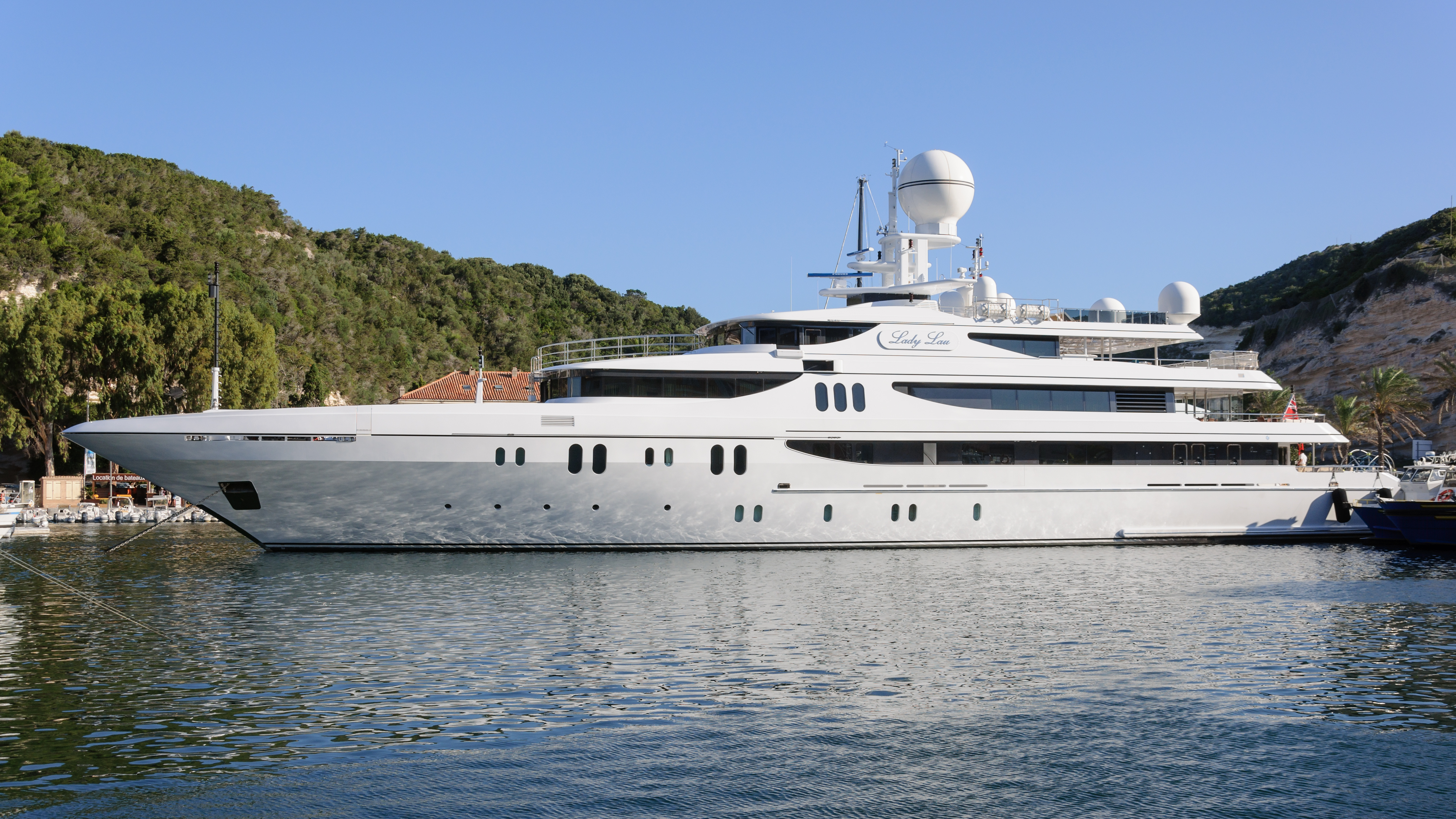 The super yacht M/Y LADY LAU (IMO 1010674) in the port of Bonifacio, Southern Corsica, France